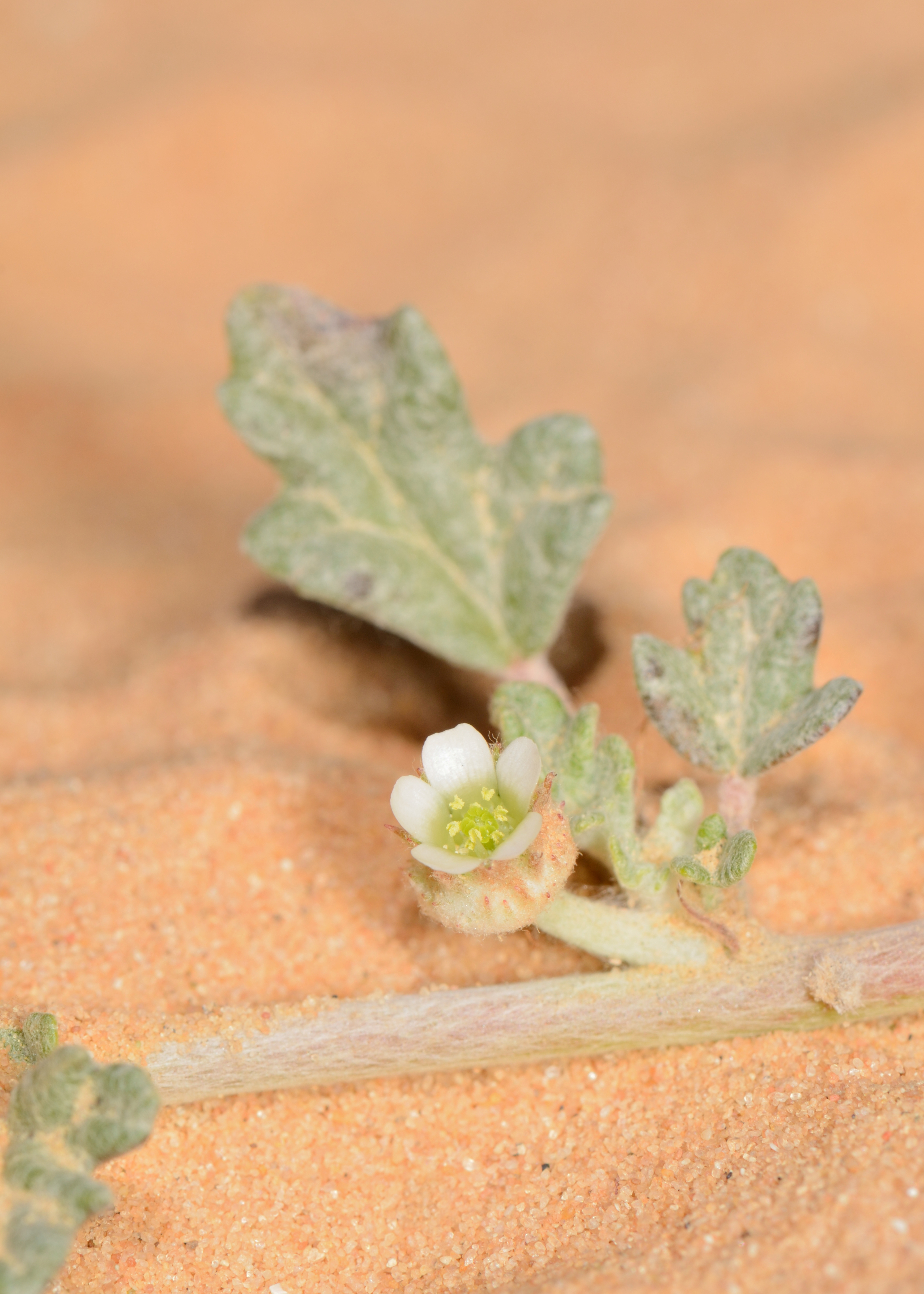 Neurada procumbens L., Holot Mash'abbim, Northern Negev, Israel, March 10, 2013.